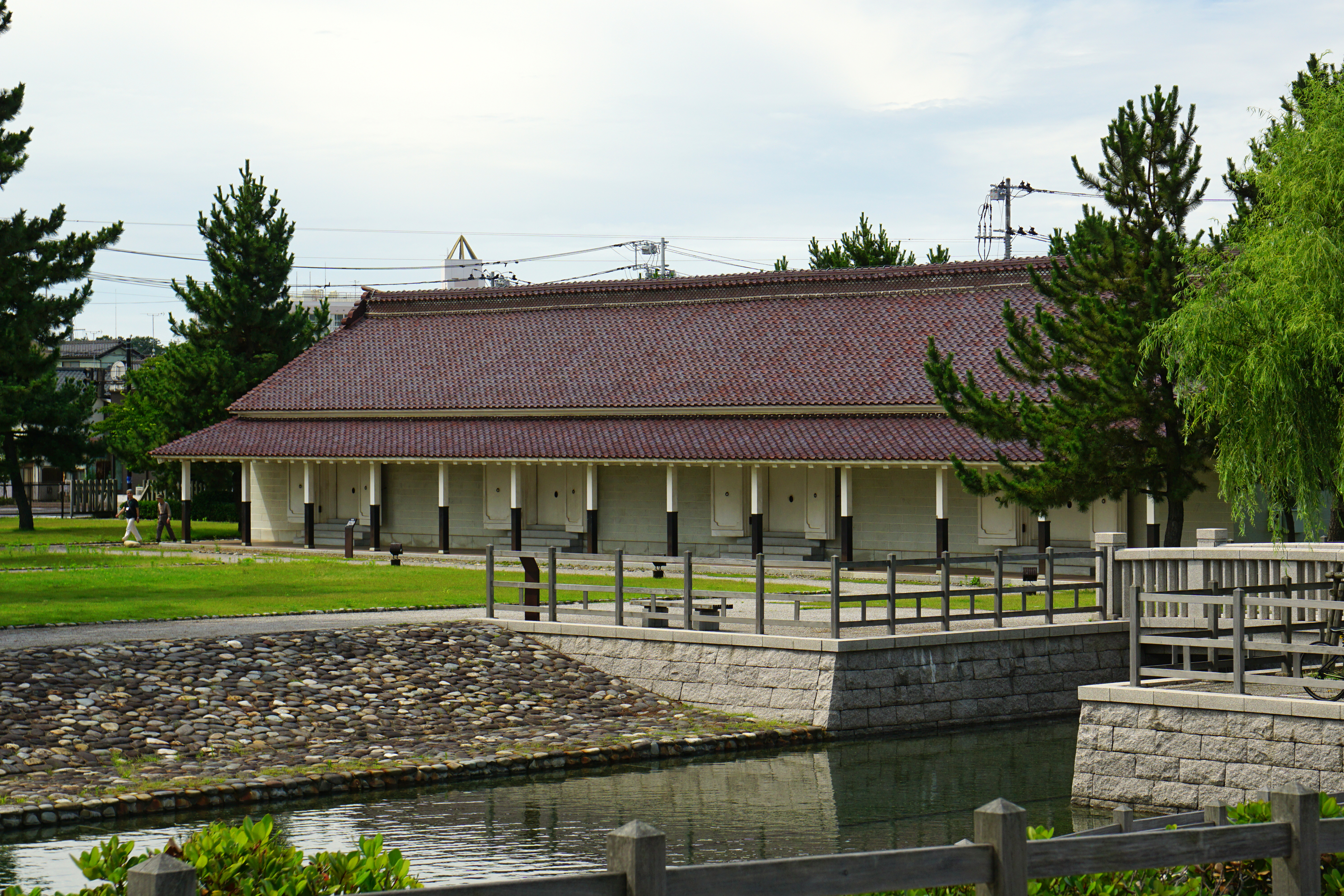 Old Niigata Customs Government Building in The Niigata City History Museum, Niigata, Niigata prefecture, Japan.